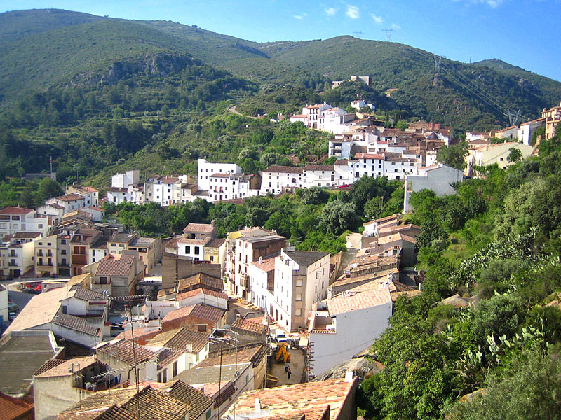 Vilafamés, county Plana Alta, Region of Valencia, Spain.